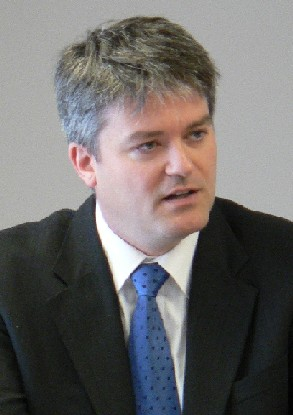 Senator Mathias Cormann addressing a WACOSS forum in the lead-up to the 2007 Federal election in Australia.